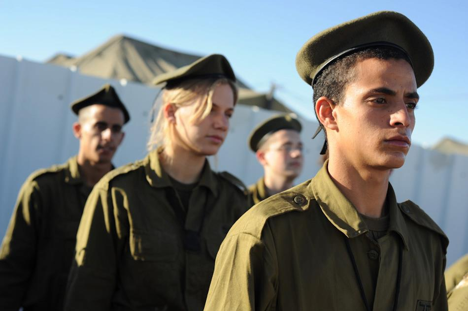 The 2011 November cycle recruits of the first ever coed Caracal Battalion went through a lot from their first day in the IDF to be a soldier in the Caracal Battalion and earn the coveted green beret. From rainy nights to desert hit days, here's what it looks like. Photos by Noa City-Eliyahu, Bamahane The Israel Defense Forces Facebook • blog • Twitter